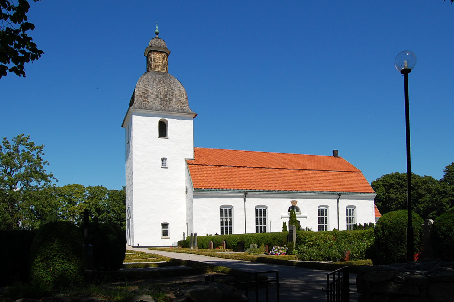 church of Mjällby, county of Sölvesborg, Sweden